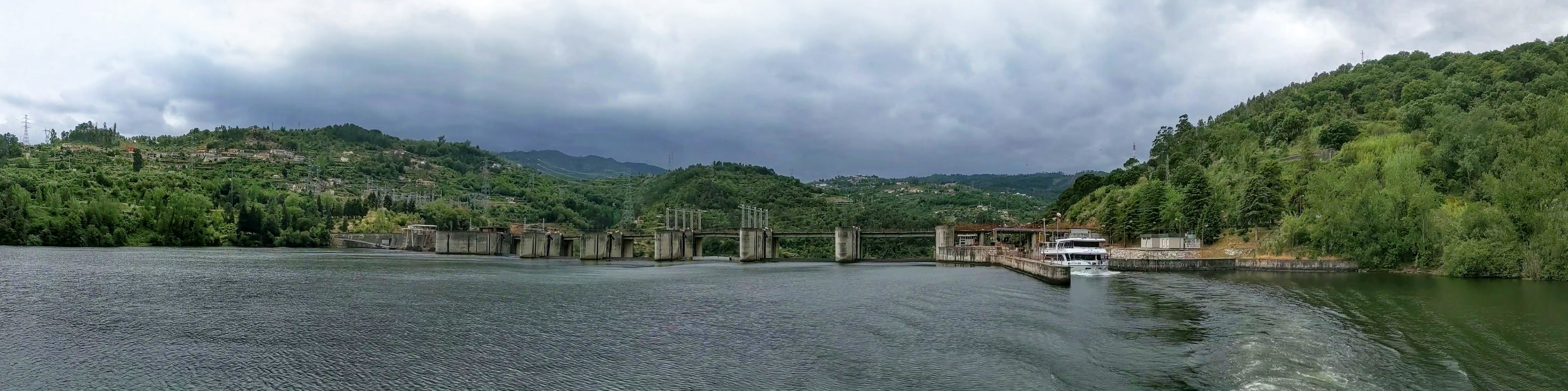 Barragem do Carrapatelo (Carrapatelo Dam) panoramic view from a boat on the lake on the Douro River